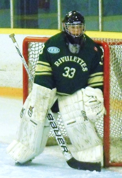 Taken by Devan Mighton during 2013-14 PWHL season.